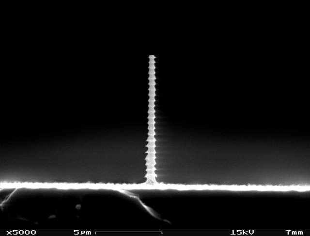 Scanning electron microscope (SEM) picture of silicon spikes (as in black silicon) after a deep reactive ion etch process of silicon